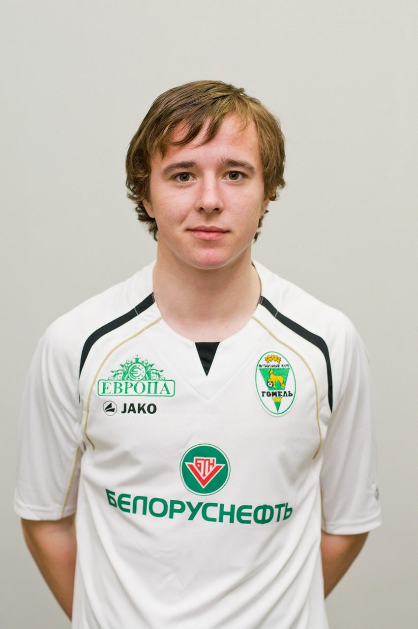 Artem Fedyanin